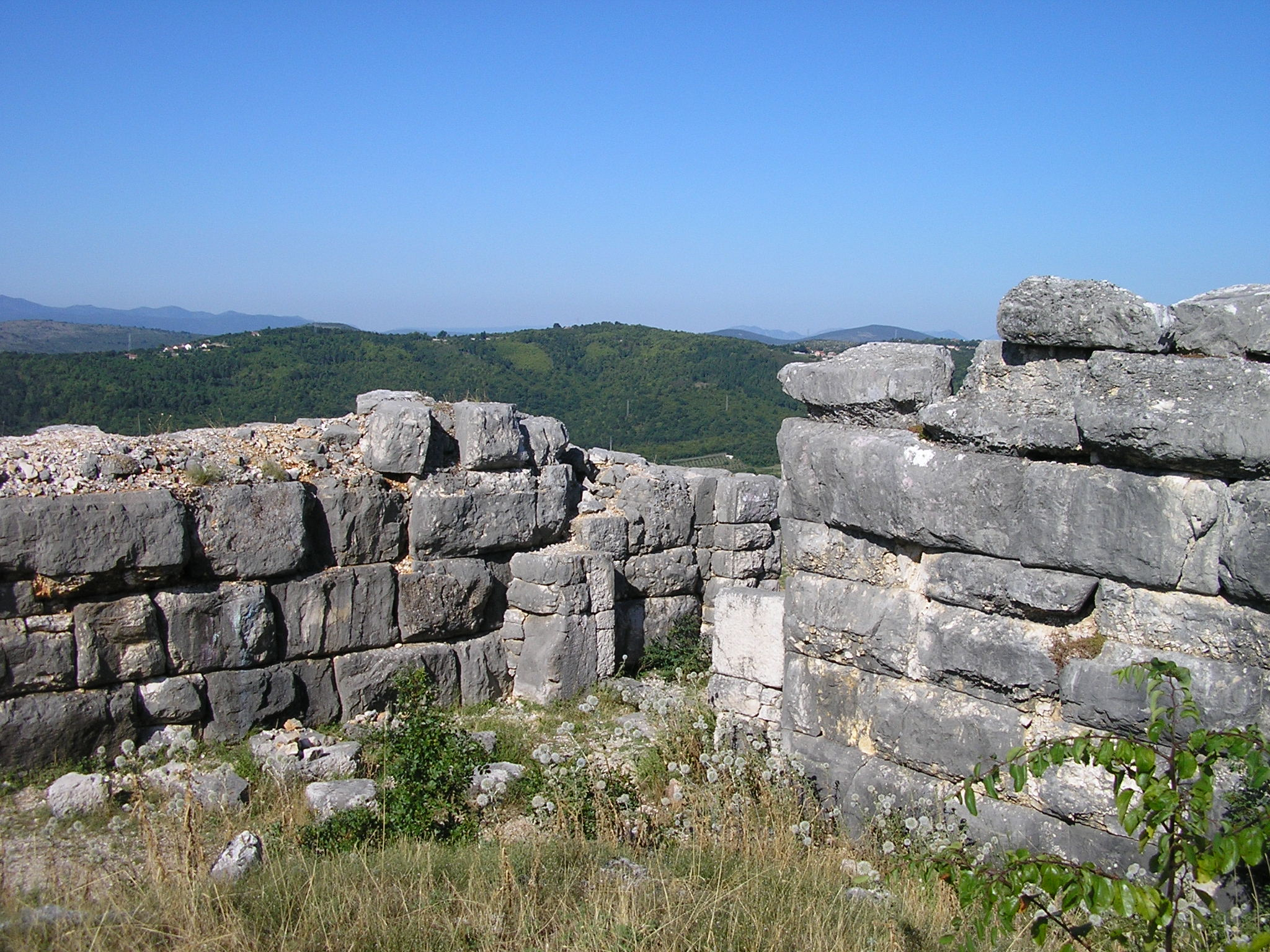 Daorson near Stolac